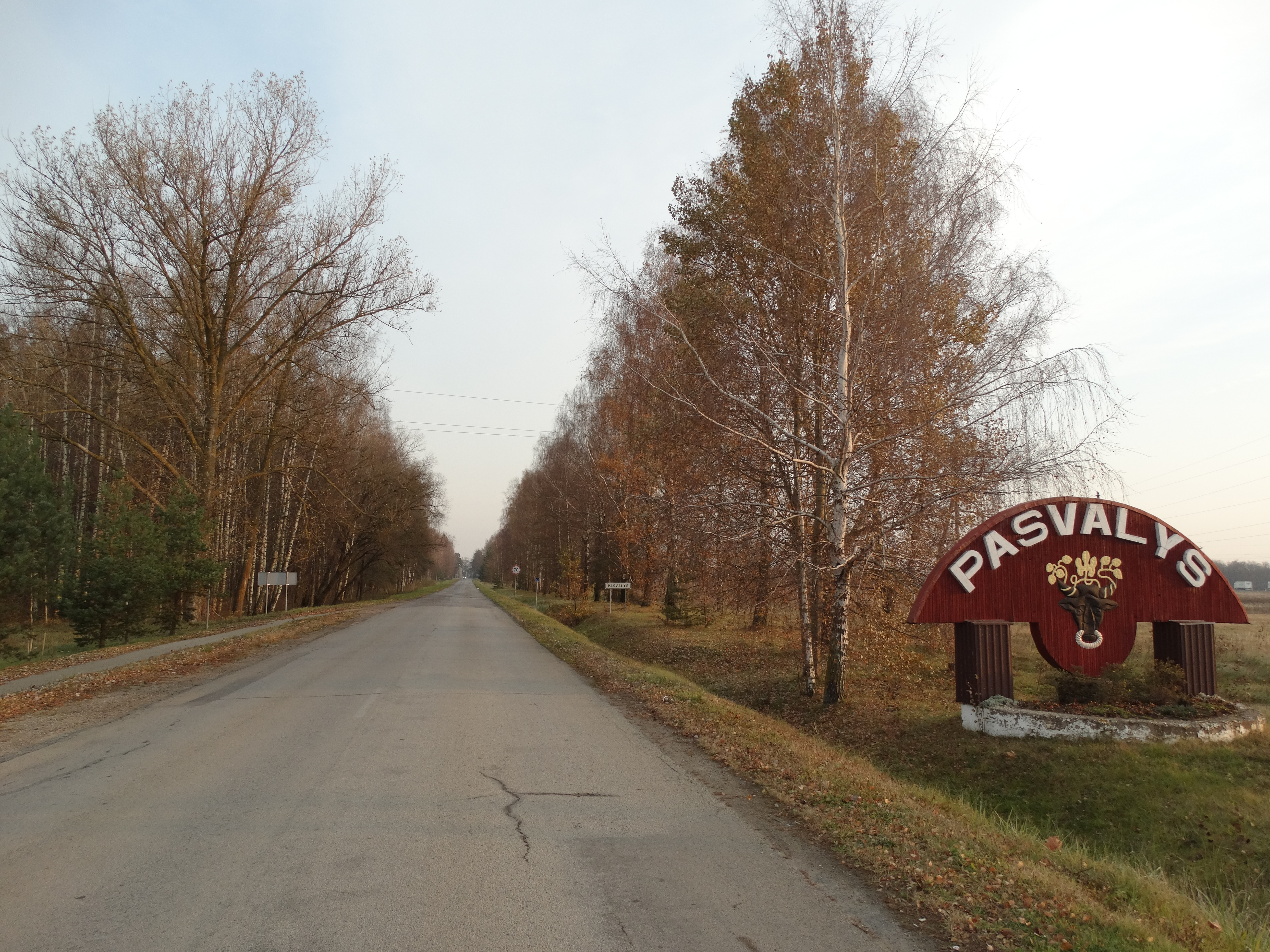 Pasvalys, Lithuania